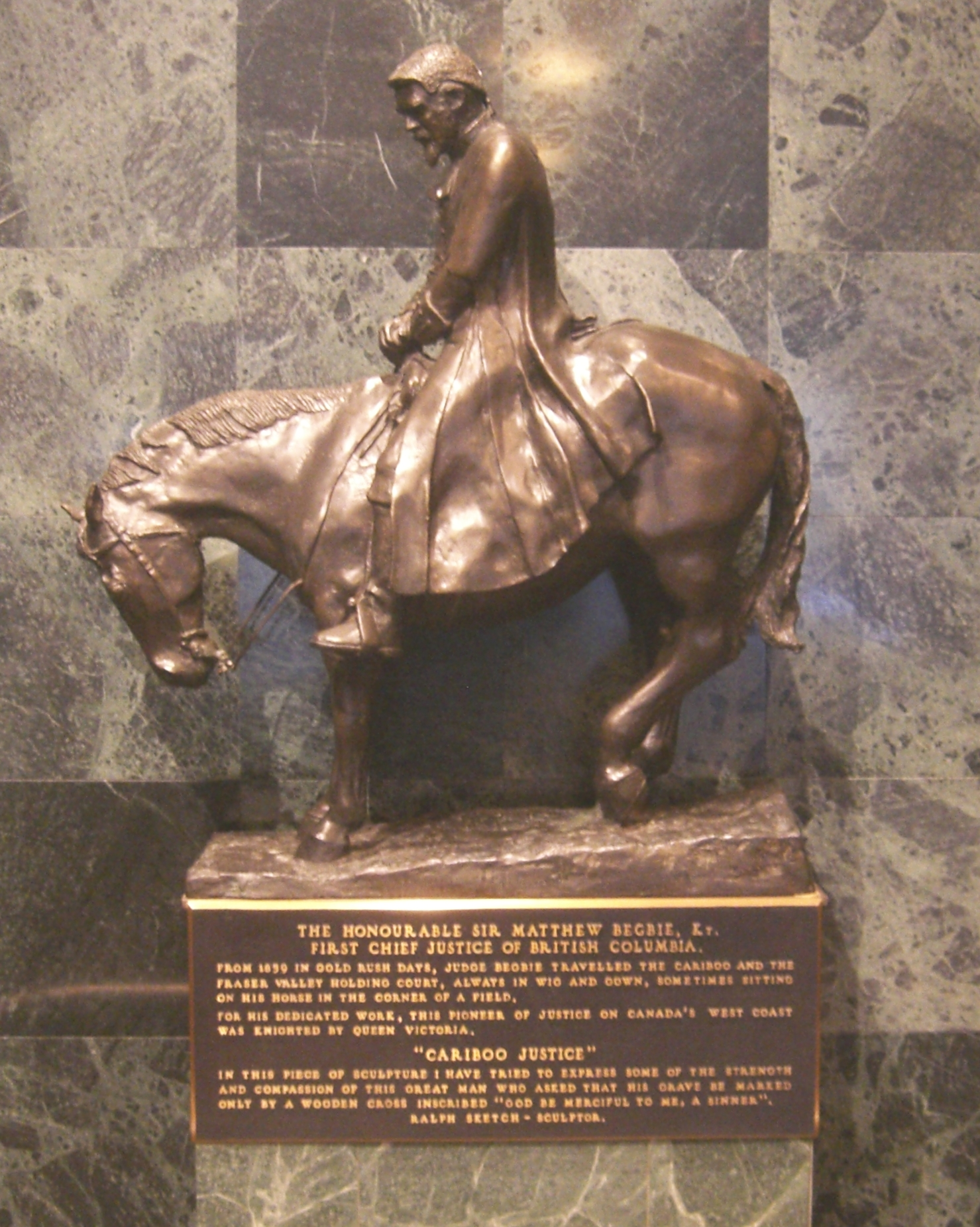 Bronze statue of Sir Matthew Baillie Begbie located at 845 Cambie Street, Vancouver BC